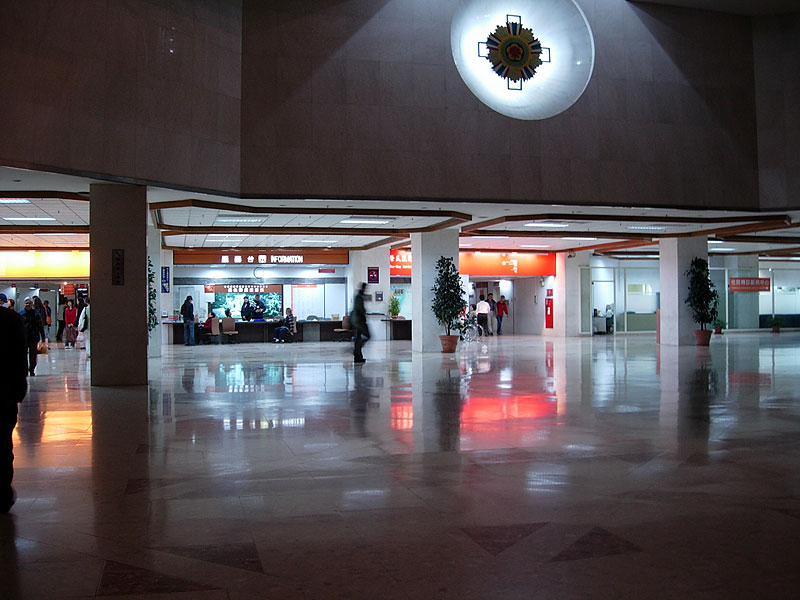 Lobby of Taipei Veterans General Hospital.